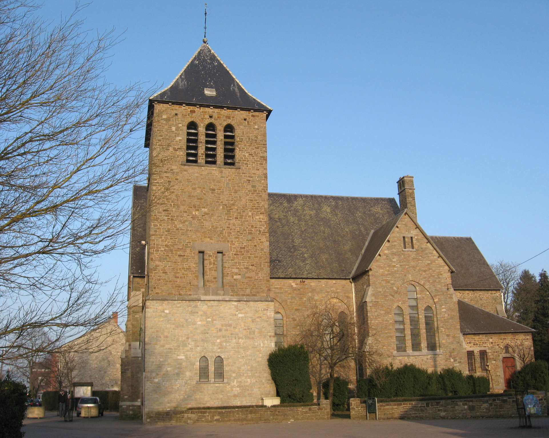 Church of Saint Anthony of Padua in Magnée, Fléron, Liège, Belgium